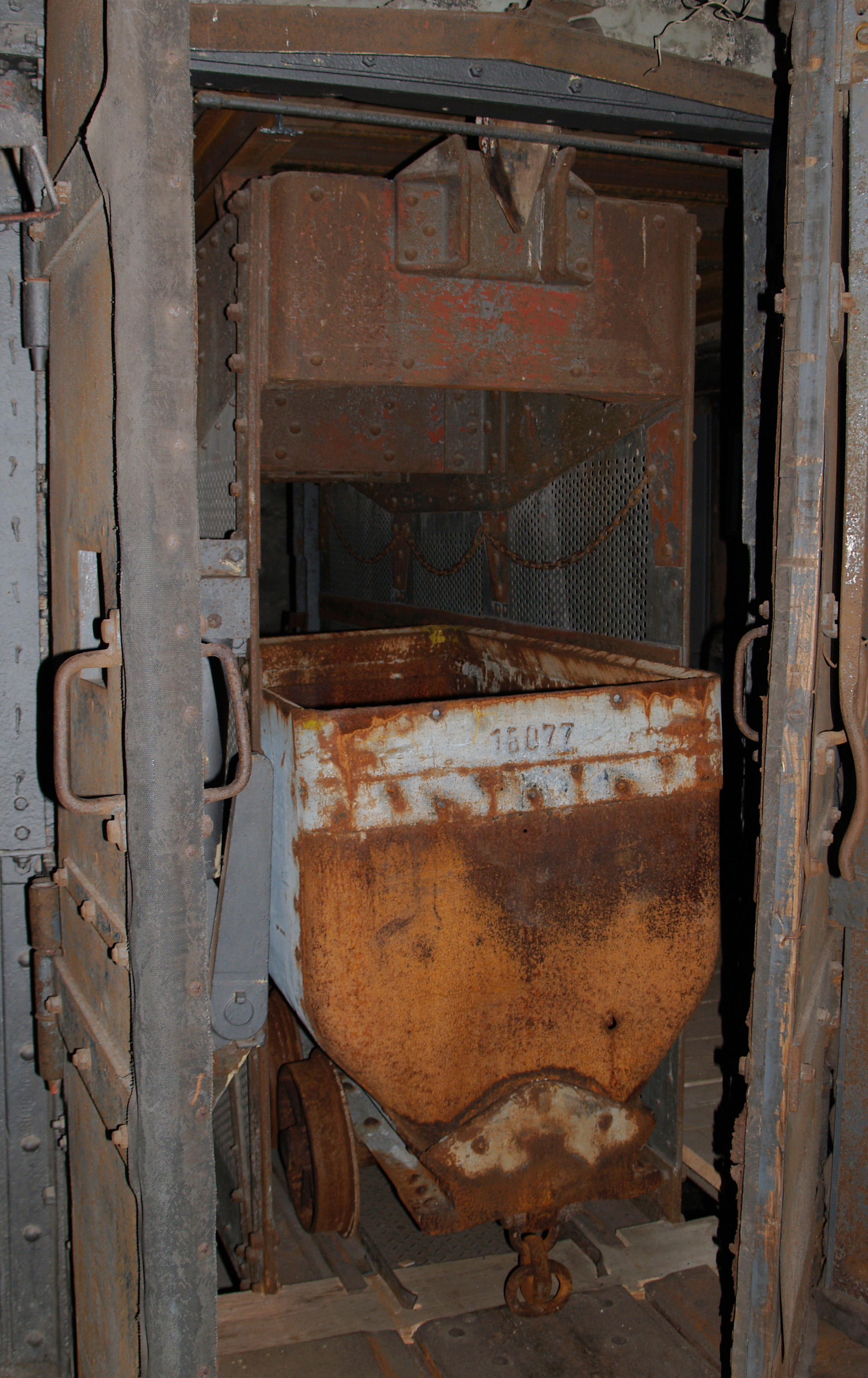 Hoisting cage in pit at the former coal mine 'Zeche Hannover' at Bochum, Germany